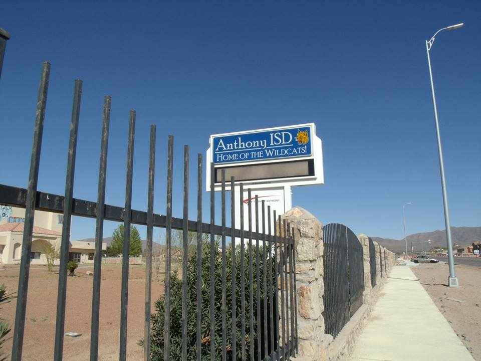 Anthony Independent School District marquee- Pictured by Wildcat drive in Anthony Tx